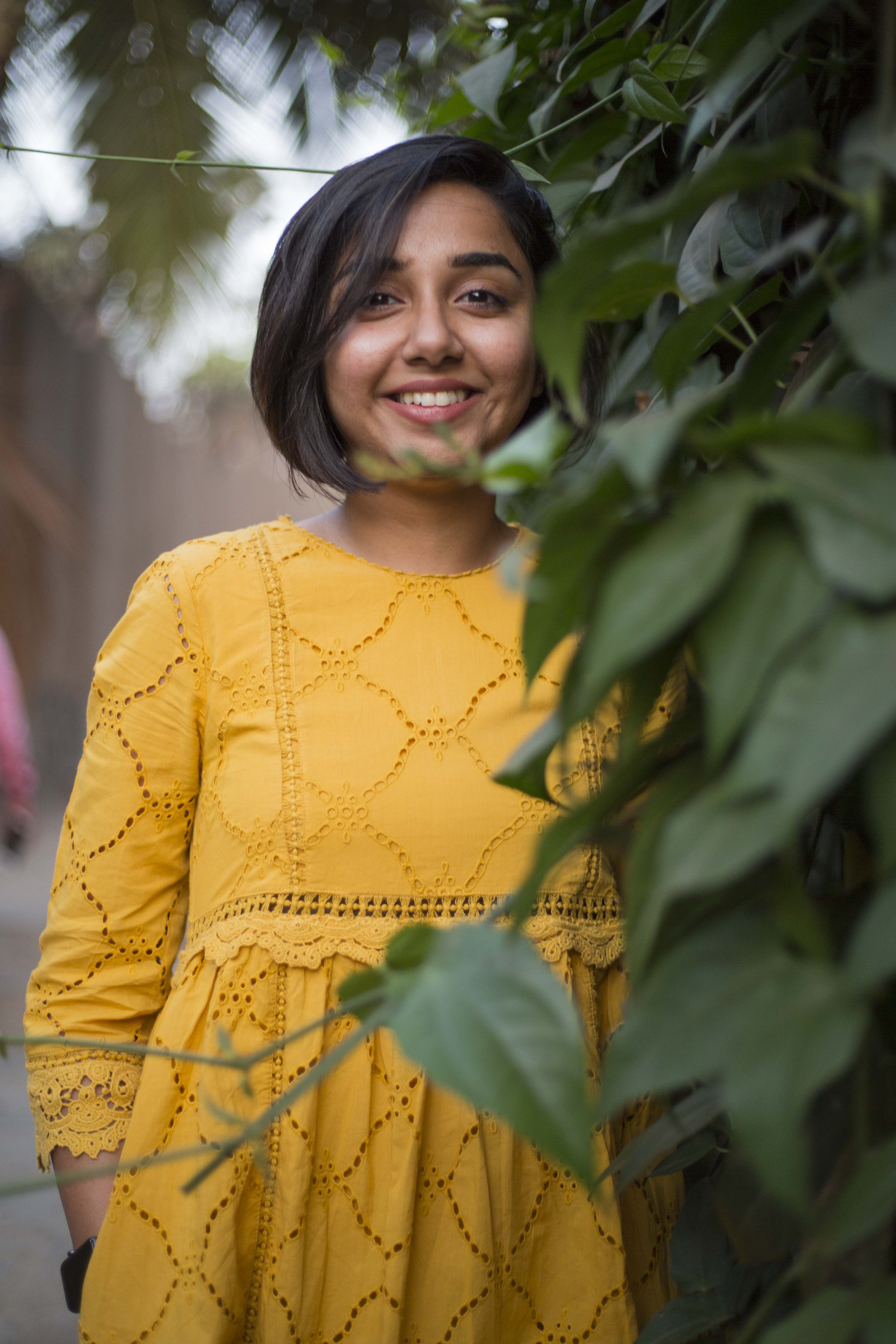 Prajakta Koli